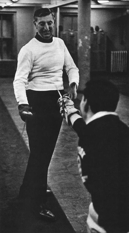 Giorgio Santelli fencing at Salle Santelli from Esquire's February 1961 story on Salle Santelli